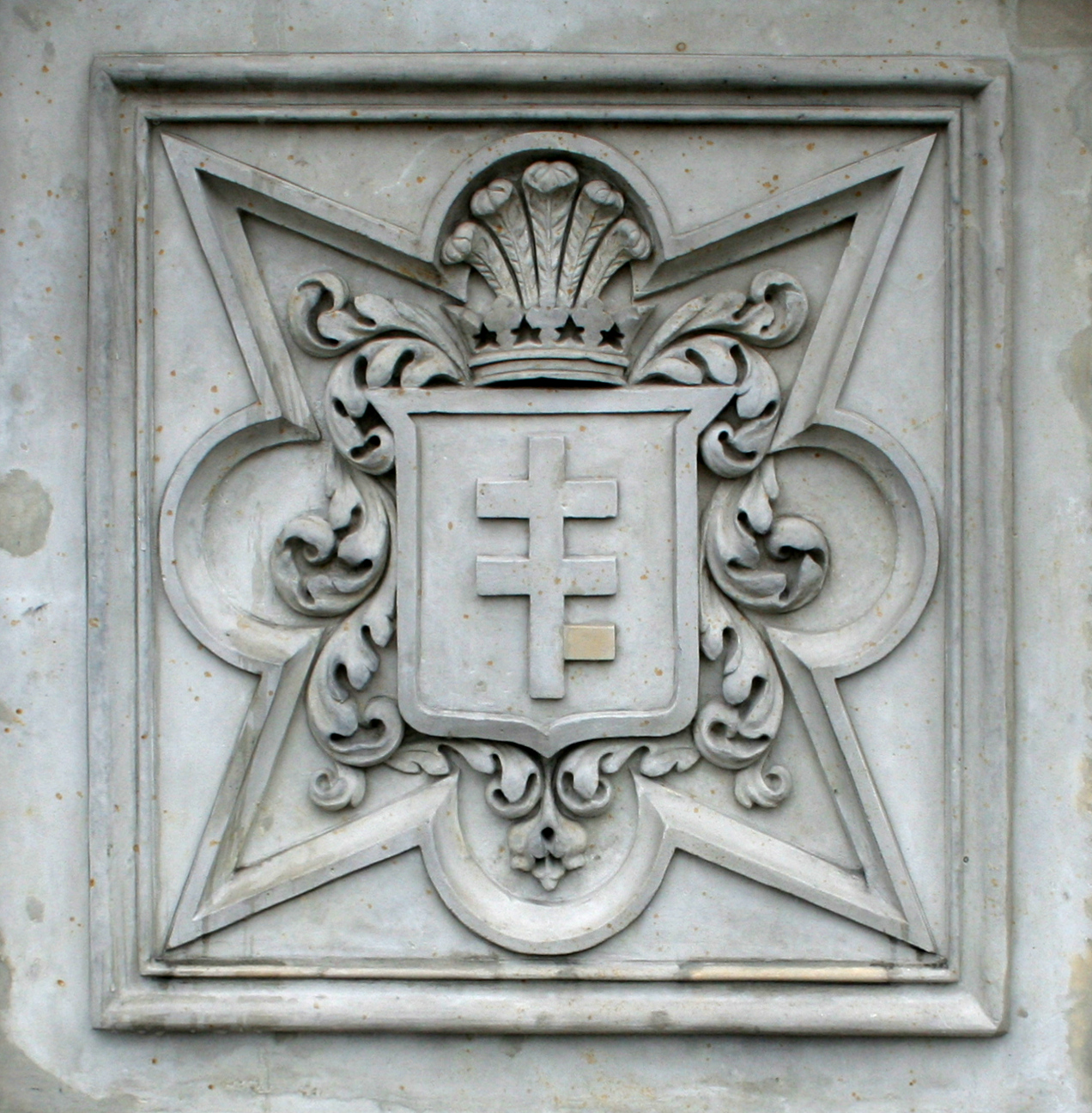 Pilawa coat of arms on the mausoleum of Stanisław Kostka and Aleksandra Potocki in Wilanów, Warsaw